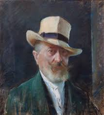 Alcesto Campriano, self portrait in 1910